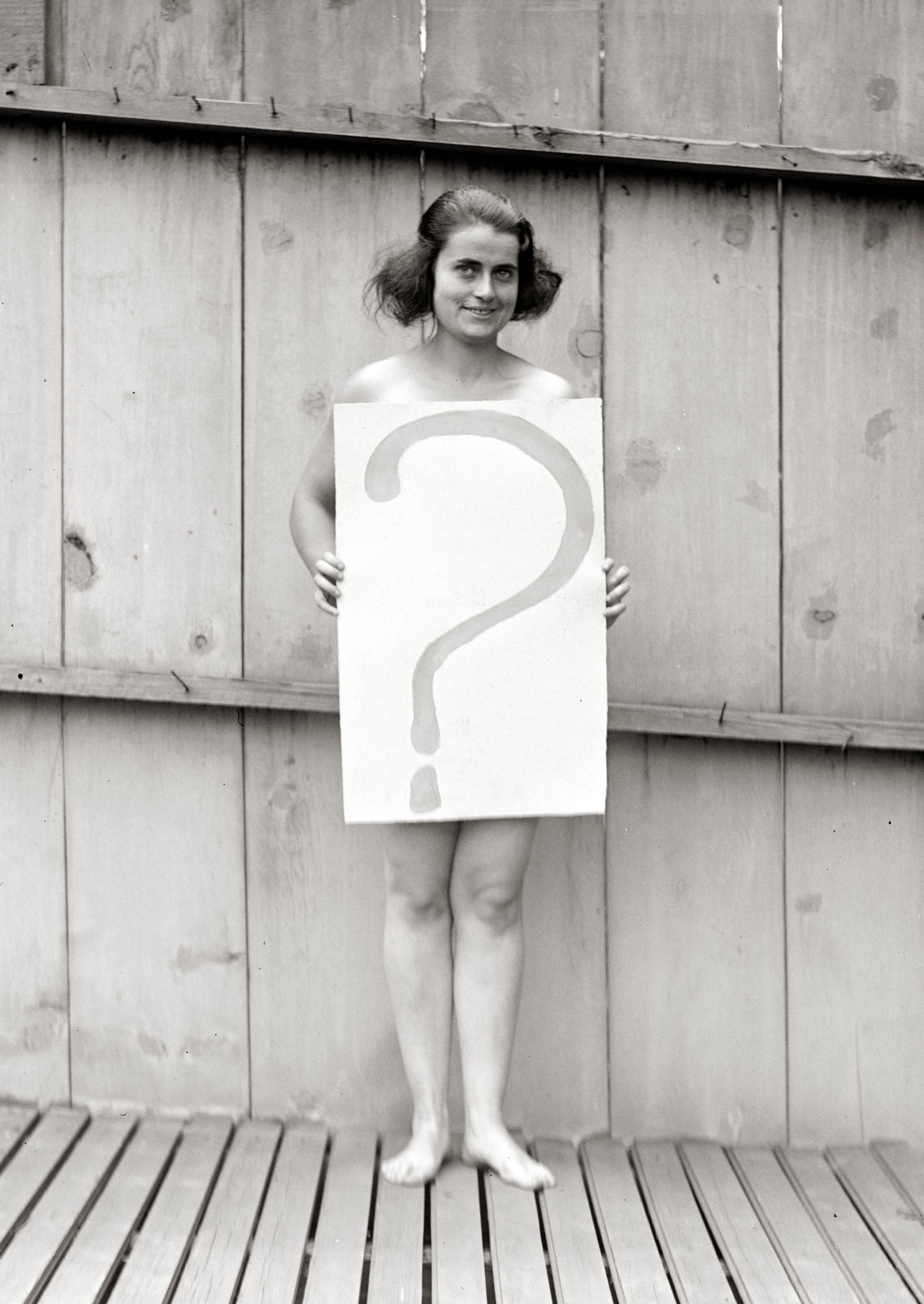 An unclothed woman in Washington, D.C. standing behind a "?" sign.